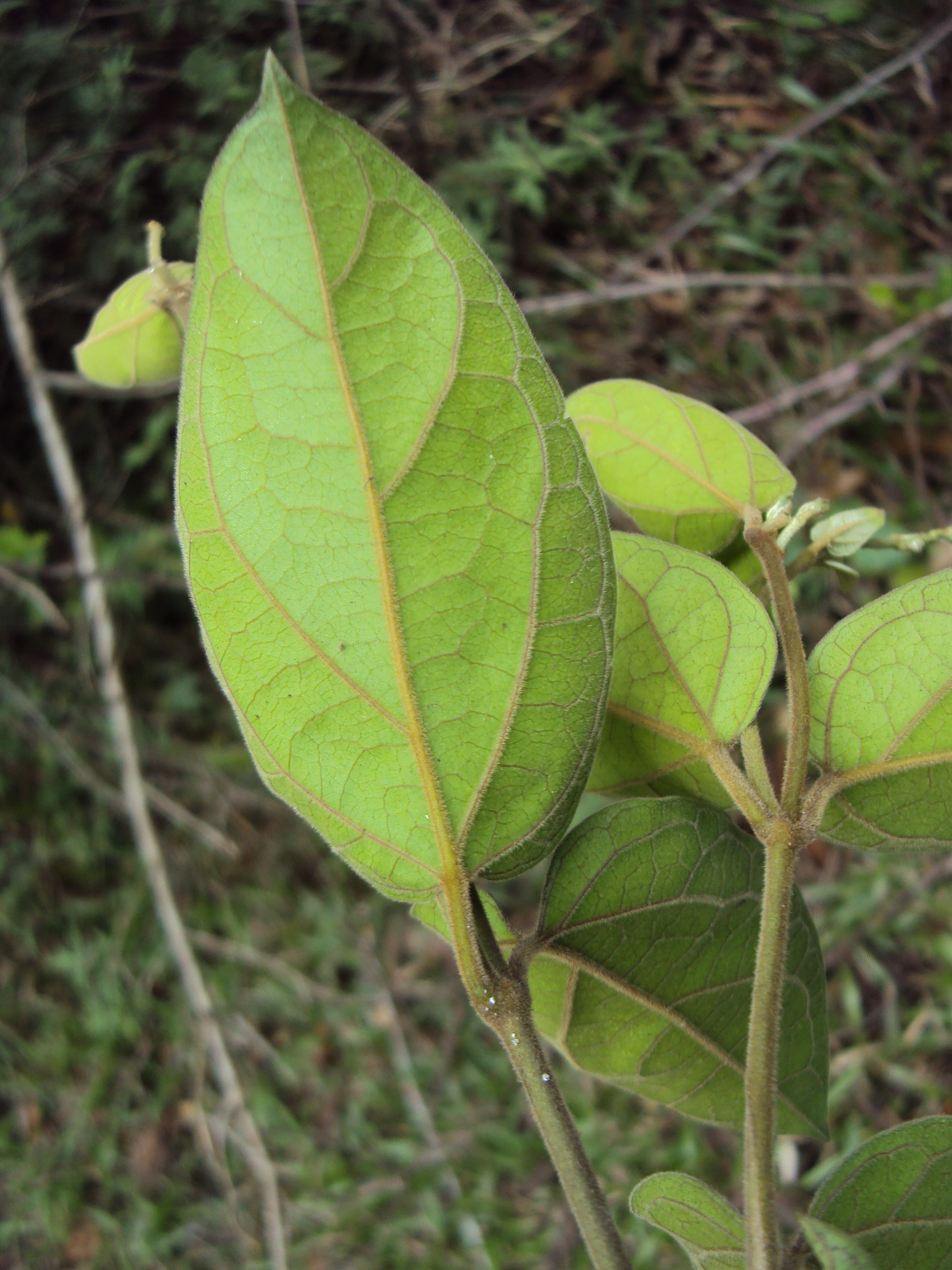 Marsdenia sylvestris